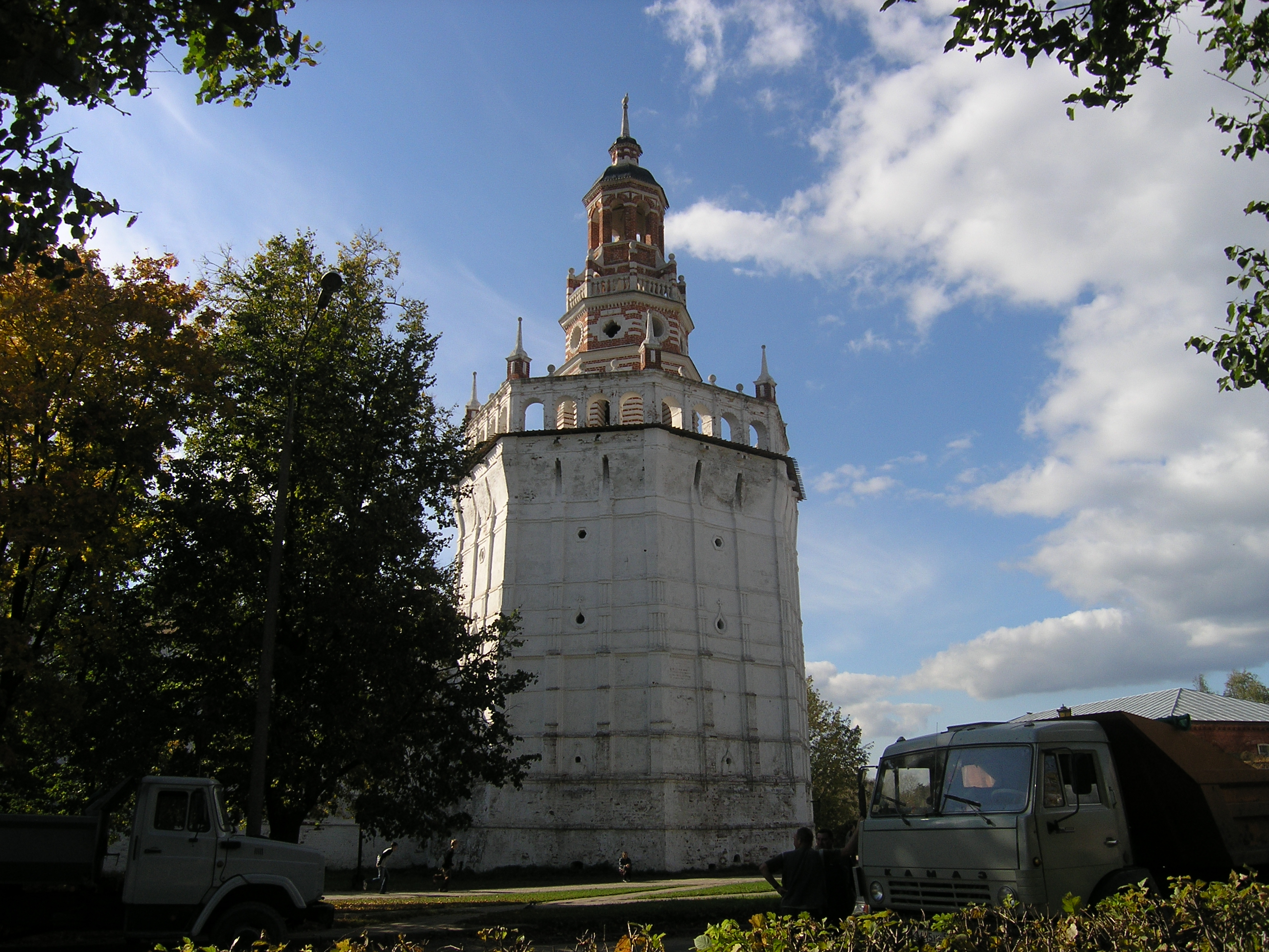 Duck tower. Troitse-Sergiyeva Lavra. Sergiev Posad, Russia.